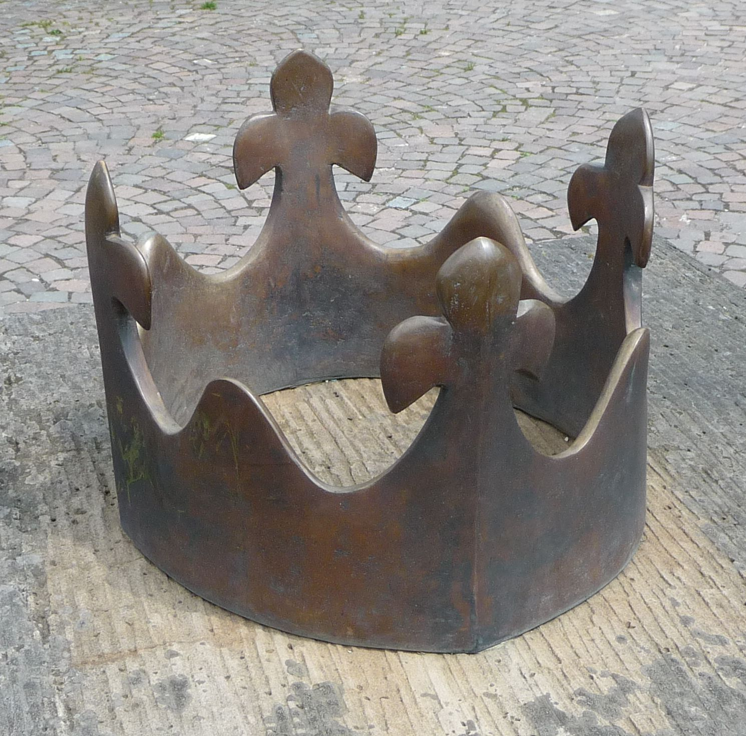 Brauchtumsbrunnen Deidesheim